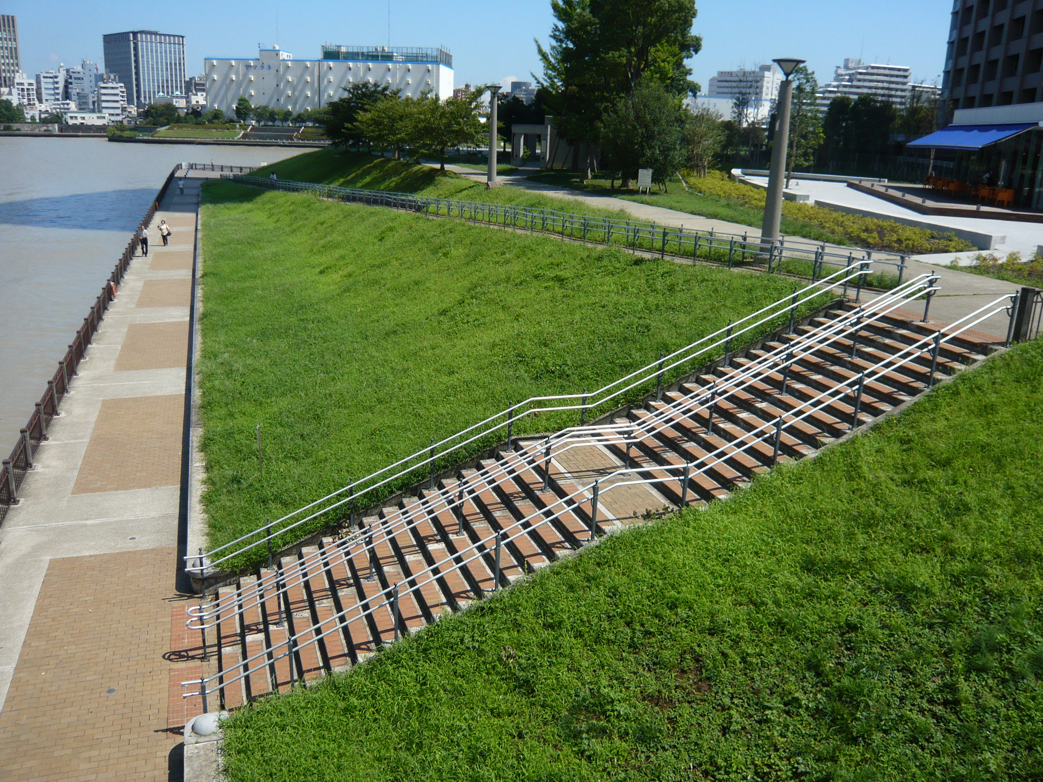 Ishikawajima Park in Chuo-ku, Tokyo. Panasonic Lumix DMC-FX30